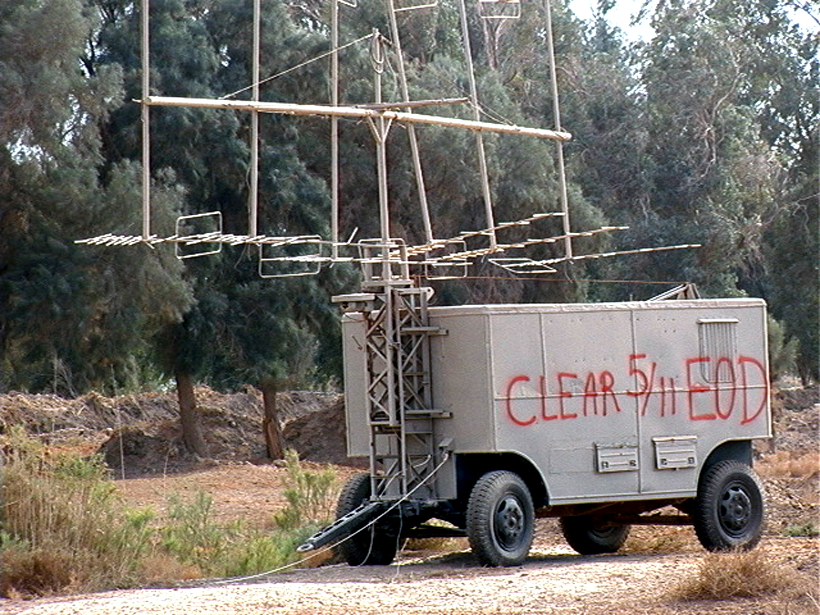 Russian built P-12 early warning radar "Spoon Rest A" associated with SA-2 Surface-to-Air Missile (SAM) cleared by the Explosive Ordinance Detachment of explosives or booby traps in Iraq during Operation Iraqi Freedom.